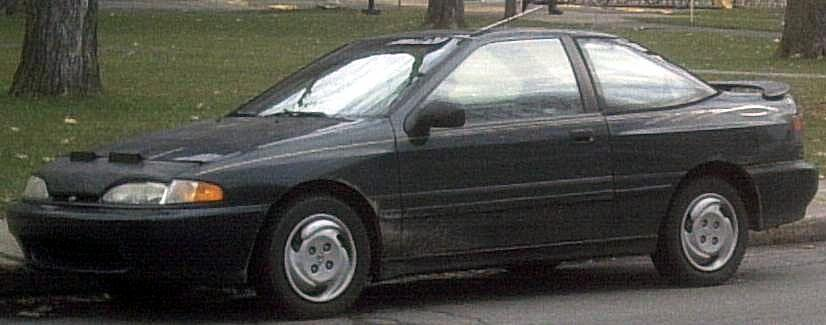 1993-1995 Hyundai Scoupe photographed in Montreal, Quebec, Canada.